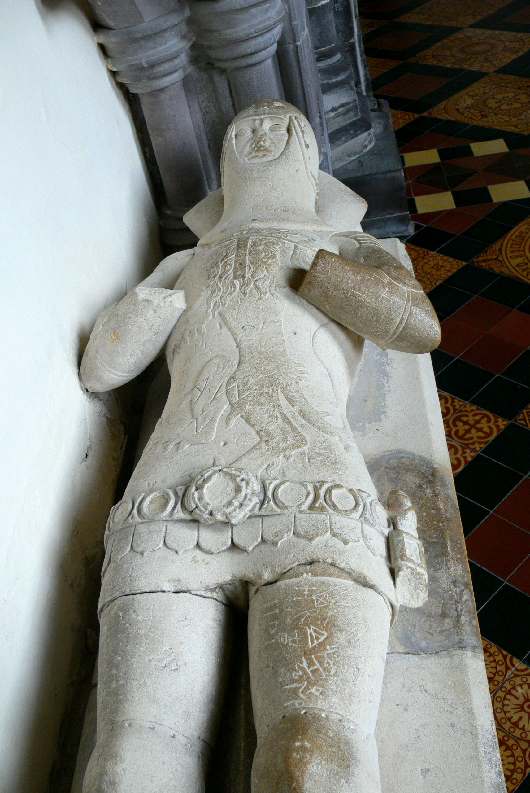 St David's Cathedral, Wales: Reputed tomb (14th century) of Rhys Gryg (died 1233)